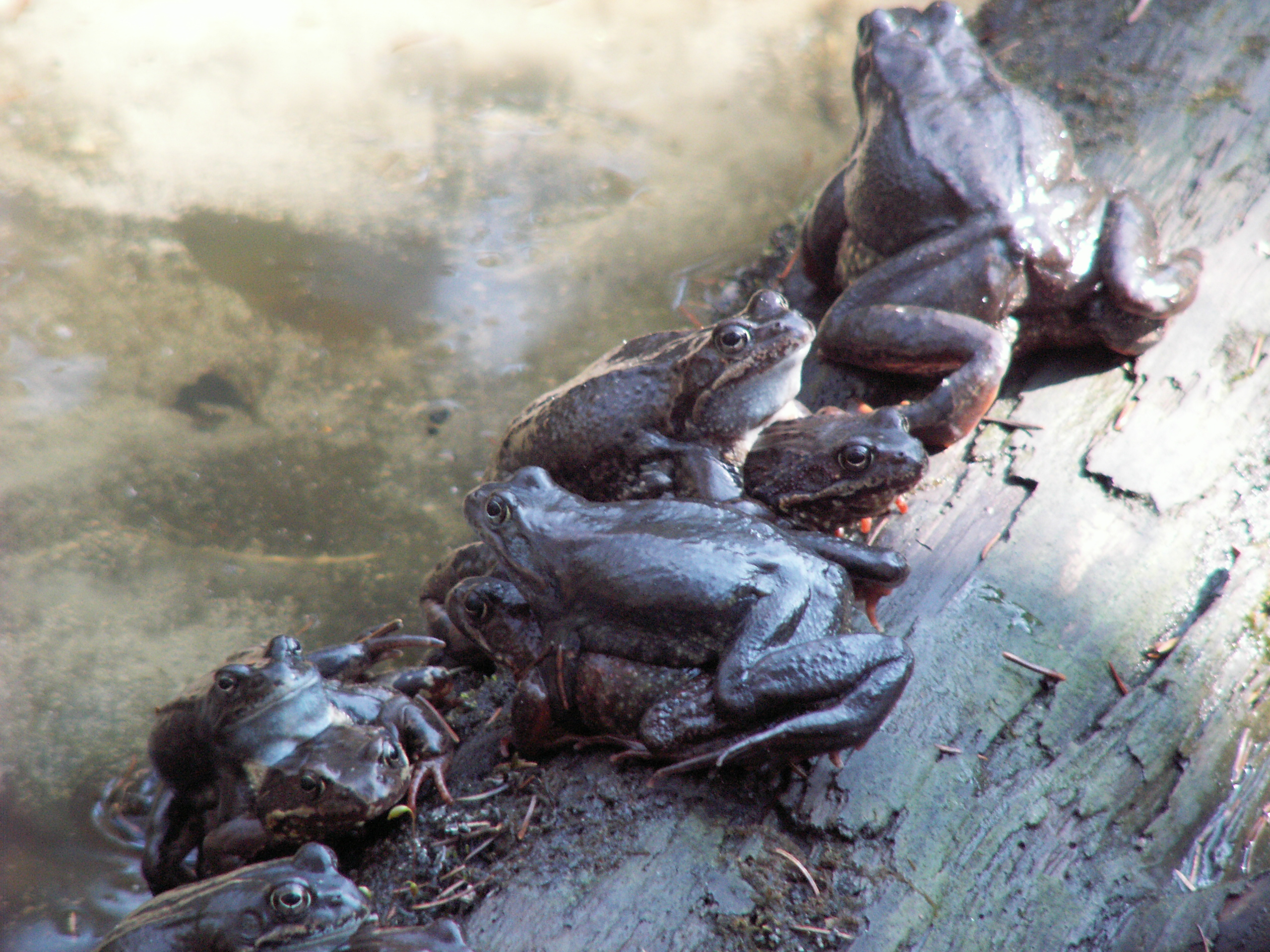 Mating Common frogs in the Älvsjöskogen forest, Stockholm.